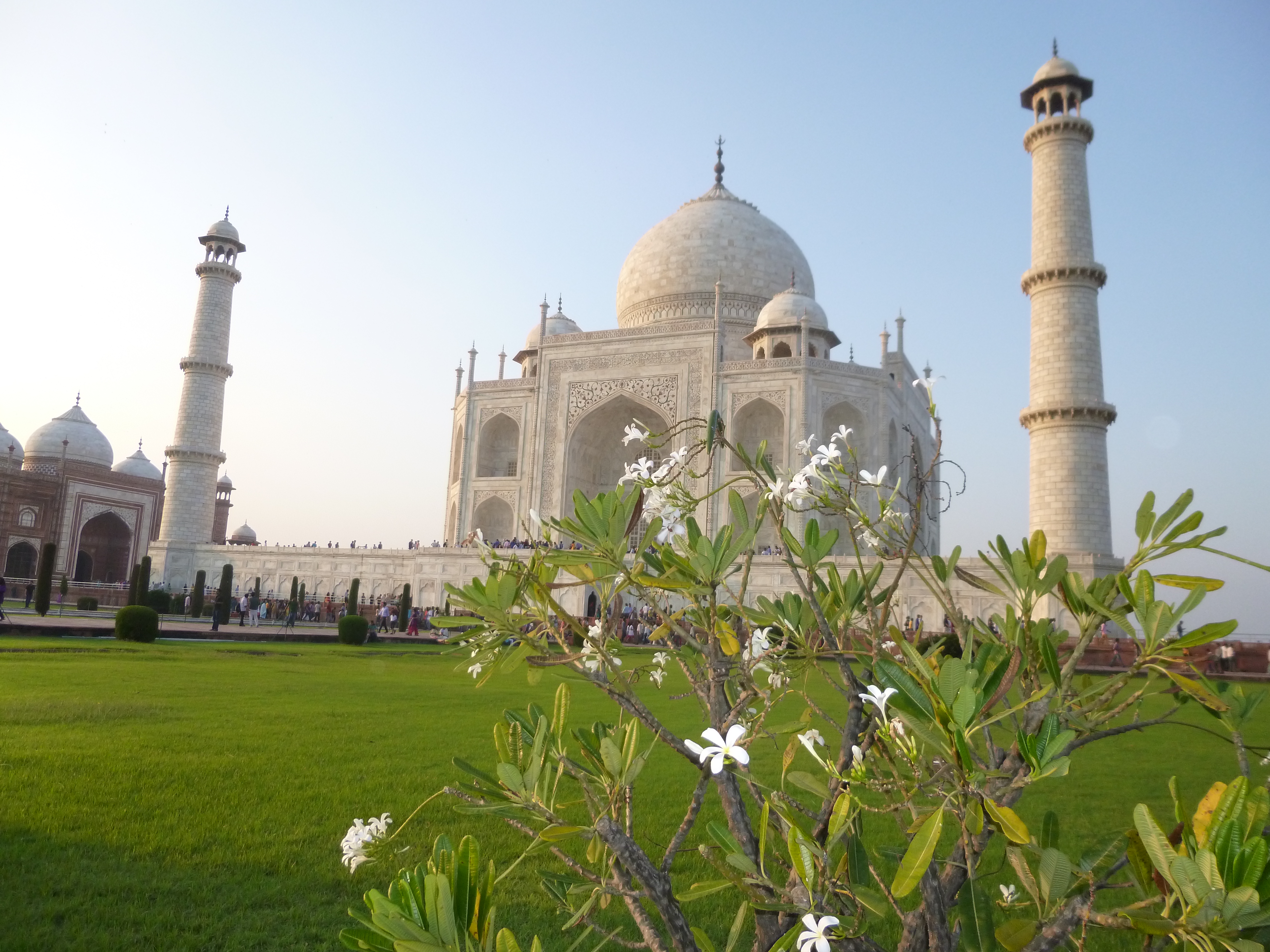 Truly a wonder of the world, this famous monument - the Taj Mahal - is always photogenic, constantly changing colors depending on the time of day and intensity of the sun. (India) Nikon FM2 / 35mm Nikon lensTaj Mahal